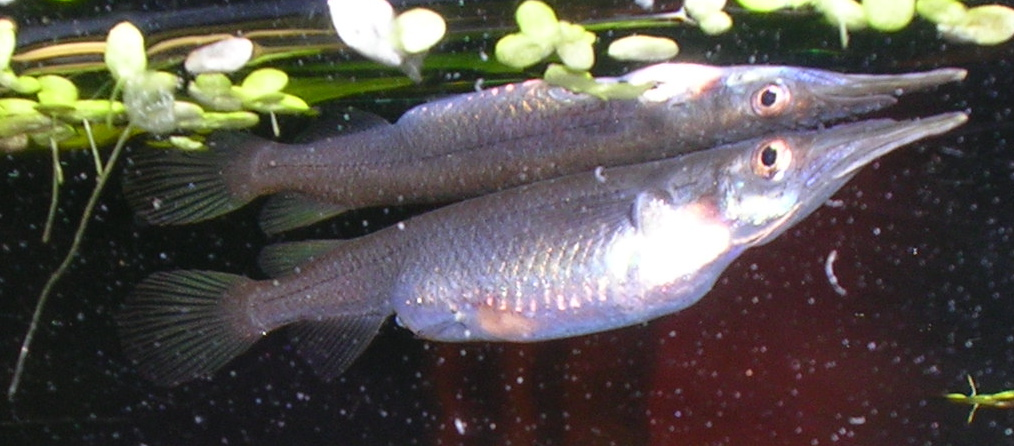 Female Dermogenys sumatrana in an aquarium, a day or so before giving birth. Taxonomy Chordata : Actinopterygii : Beloniformes : Hemiramphidae : Freshwater halfbeak Category:Beloniformes images